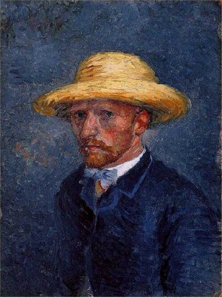 A portrait of Vincent van Gogh's brother, the art dealer Theo van Gogh, painted in Paris in 1887. The portrait was long thought to be a Vincent van Gogh self-portrait, but in June 2011 following a reassessment by the Van Gogh Museum's head researcher Louis van Tilborgh it was said to be of Theo van Gogh. This was due to several physical traits that were more similar to Theo than they were to Vincent, including the portrait's trimmed and well-maintained beard, his ocre hair colour, and his sharper ears (Vincent was known to have fleshy, plump ears).: see Museum uncovers Van Gogh painting of his brother. The Daily Telegraph (21 June 2011); Vincent van Gogh self-portrait revealed as his brother. BBC News (22 June 2011).